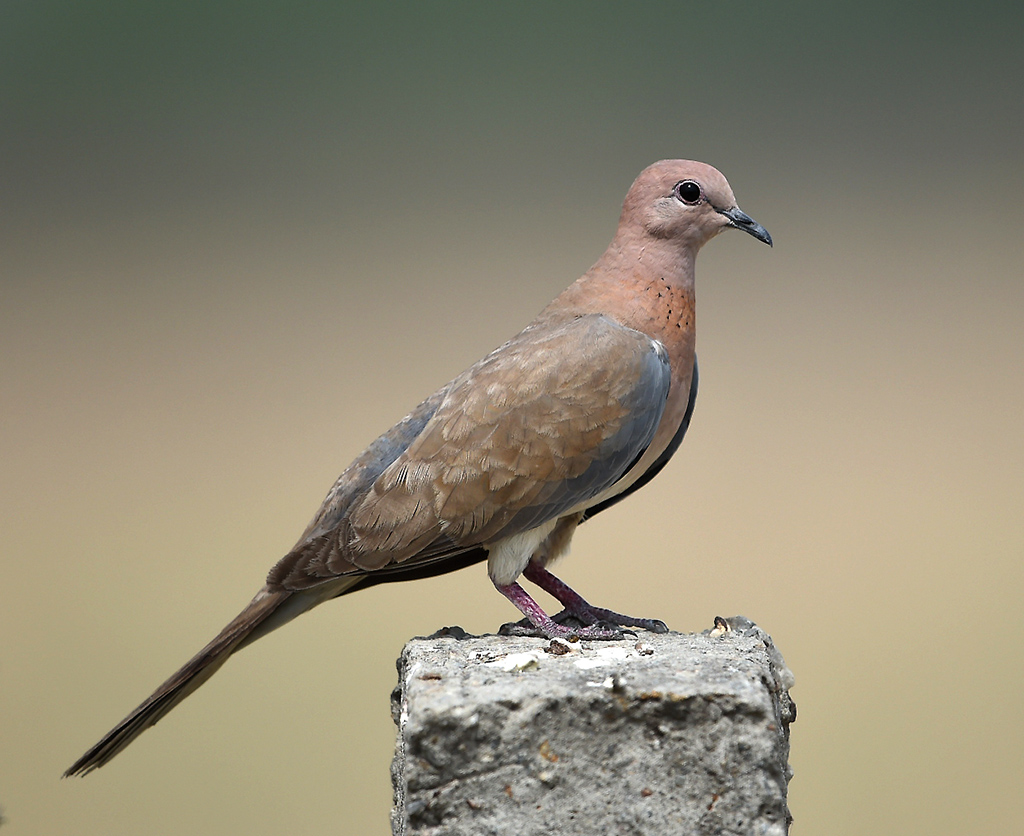 A Laughing Dove (Stigmatopelia senegalensis) posing for my new Nikon D4S. April 14, Vishu/ Bihu/ Pongal / New Year Day 2014. The Camera was a Vishu (New Year) gift from Susan.